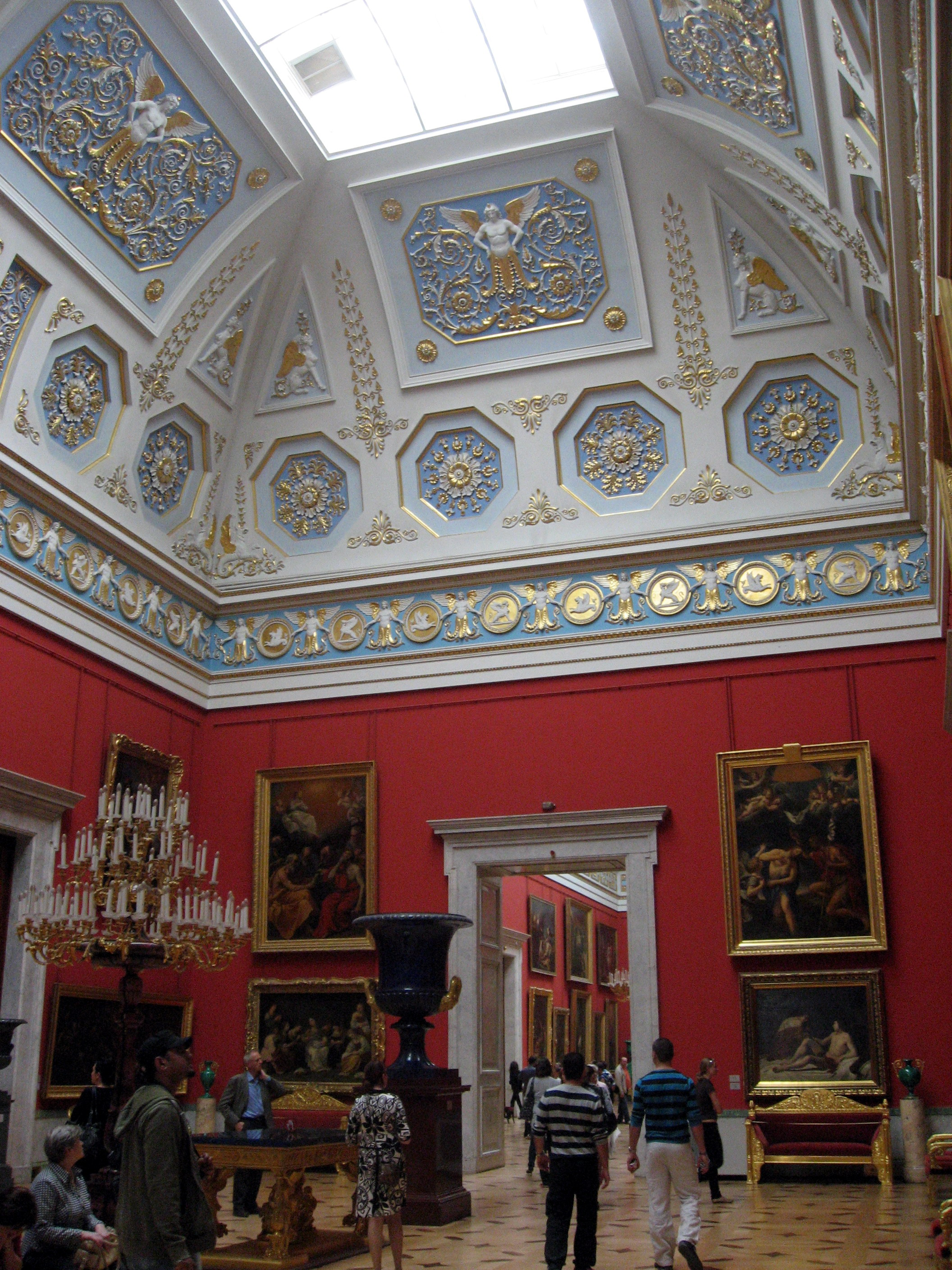 Ermitáž